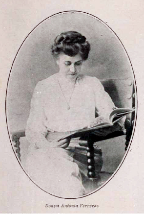 Portrait of Antonia Ferreras published in no. 40 of the magazine "Feminal" (July 31, 1910).